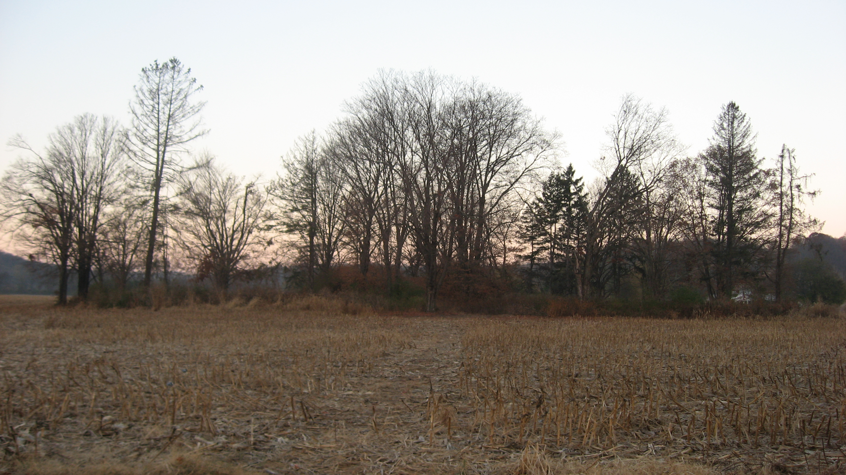 A clump of trees on the western edge of Elizabethtown, an unincorporated community in Whitewater Township, Hamilton County, Ohio, United States. Located in this clump of trees is the Rennert Mound, a Native American mound and archaeological site that is listed on the National Register of Historic Places.